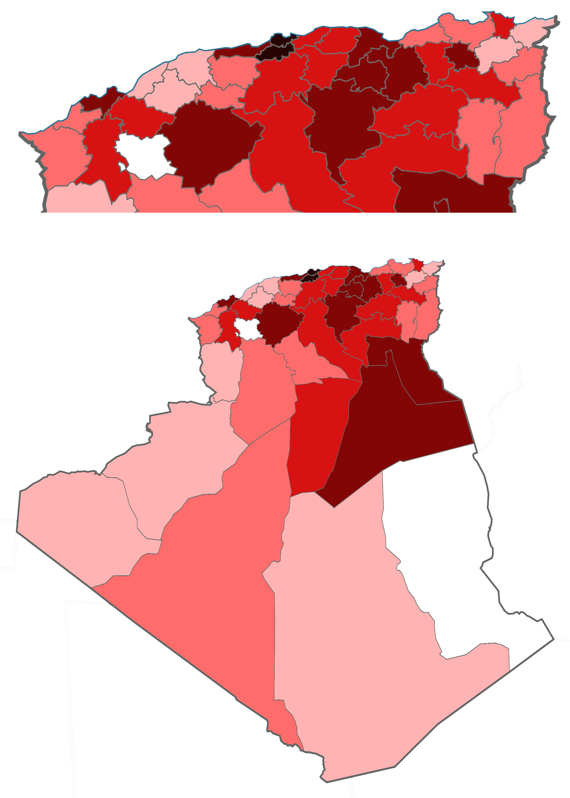 100+ Deaths 20-99 Deaths 10-19 Deaths 5-9 Deaths 1-4 Deaths 0 Deaths